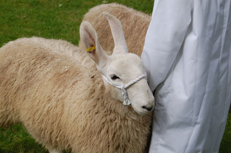 A Border Leicester sheep (probably a lamb) at a Norfolk livestock show.